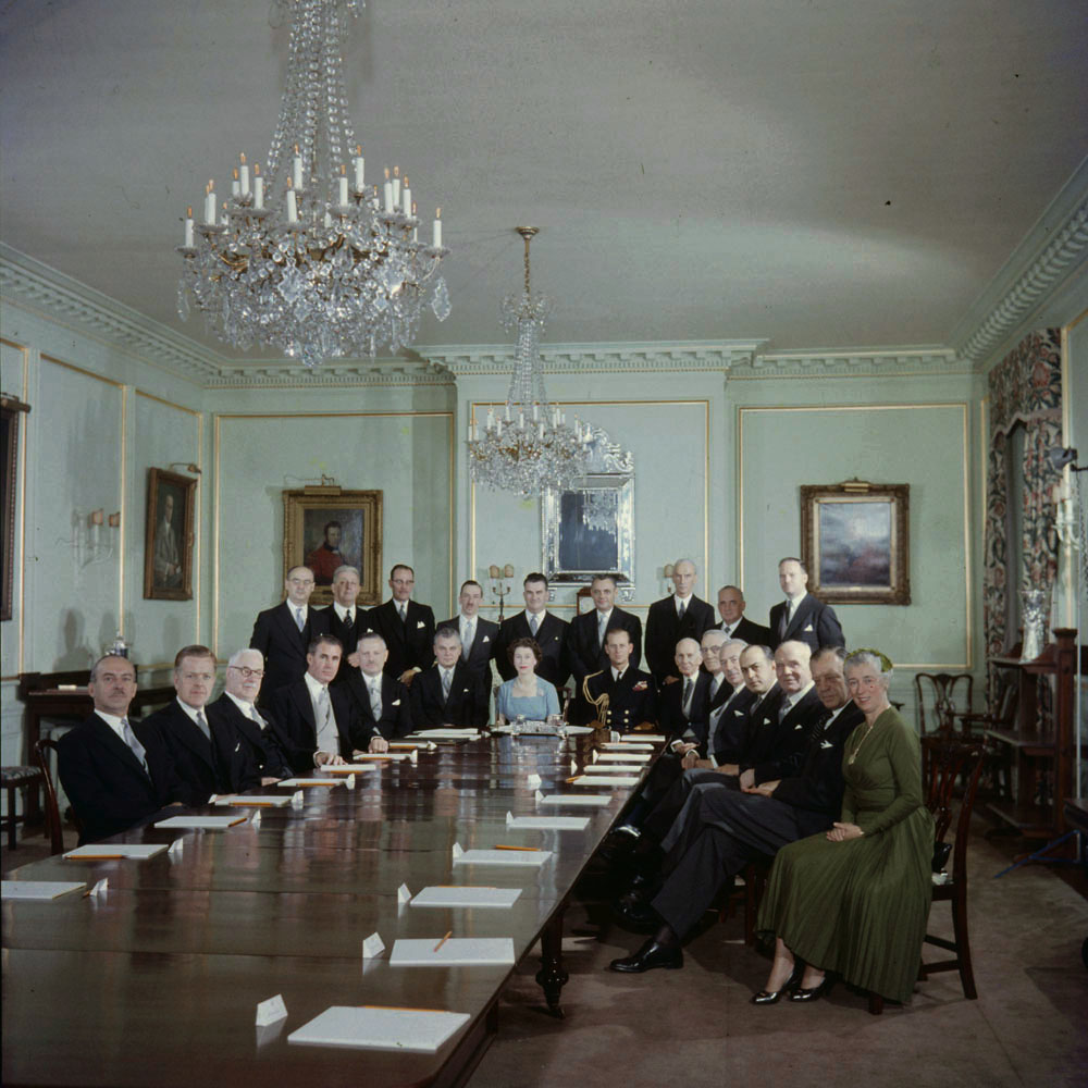 Title of the LAC copy: "Queen Elizabeth and Prince Philip meeting with the Privy Council at Government House, Oct. 14, 1957. Ottawa, Ontario." Title of the Flickr copy: "Queen Elizabeth and Prince Philip at the head table with Prime Minister John Diefenbaker, the Governor General Vincent Massey and other politicians and officials" Seated, from left to right: Douglas S. Harkness, E. Davie Fulton, George R. Pearkes, George Harris Hees, Donald M. Fleming, John G. Diefenbaker (Prime minister), Elizabeth II (Queen of Canada), Prince Philip, Vincent Massey (Governor General), Howard Charles Green, Alfred Johnson Brooks, Léon Balcer, Gordon Churchill, George C. Nowlan, Ellen Cook (Ellen Fairclough). Standing, from left to right: William J. Browne, Sidney Smith, J. Waldo Monteith, William McLean Hamilton, J. Angus MacLean, Michael Starr, J. M. Macdonnell, Paul Comtois, Alvin Hamilton.